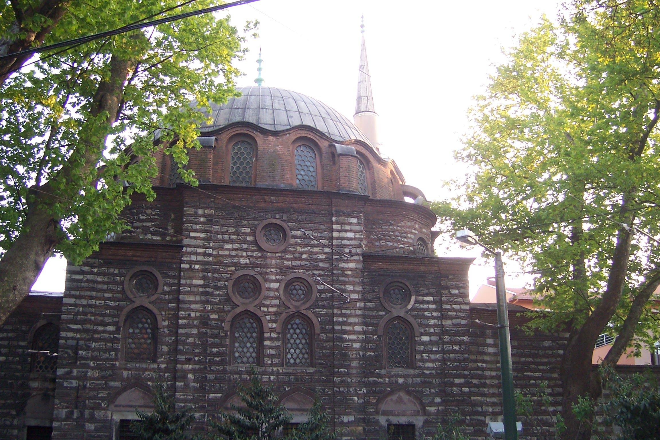 Zeynep Sultan Camii, in 1769 built by Mehmet Tahir Ağa for Sultan III. Ahmed's daughter Zeynep Sultan